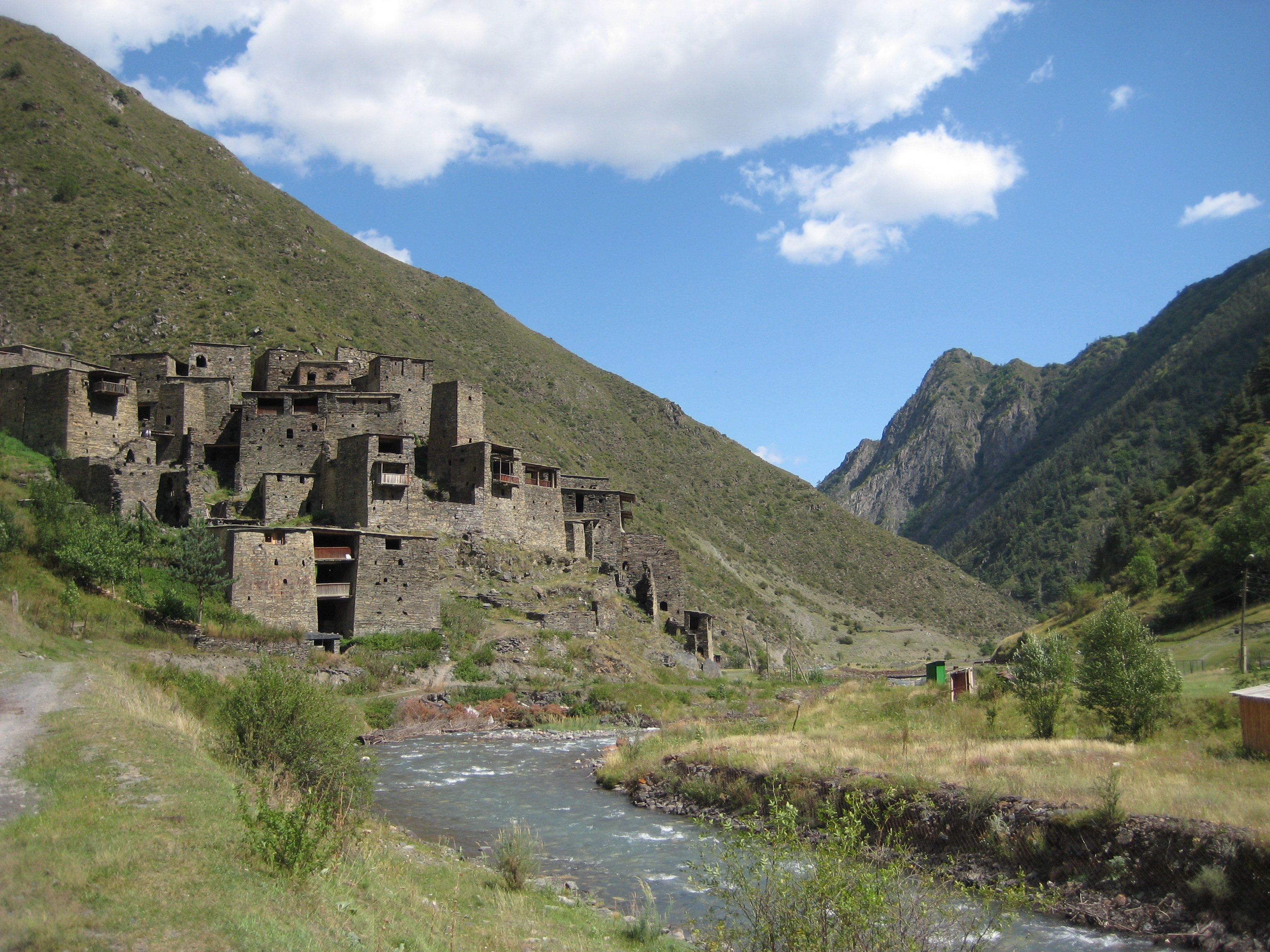 Shatili in Khevsureti Georgia